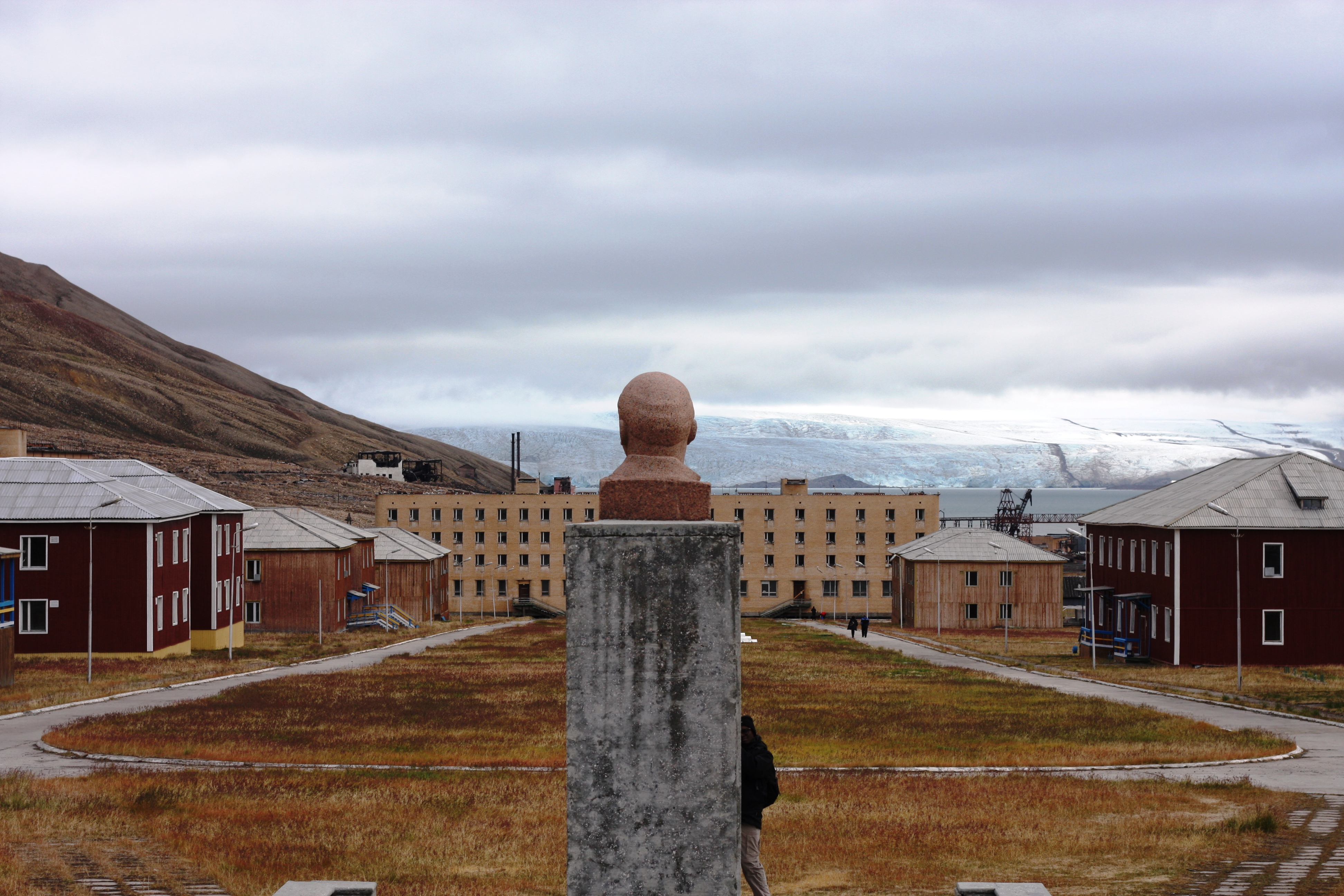 Nybyen vannforsyningsanlegg, Nybyen, Longyearbyen, Svalbard.